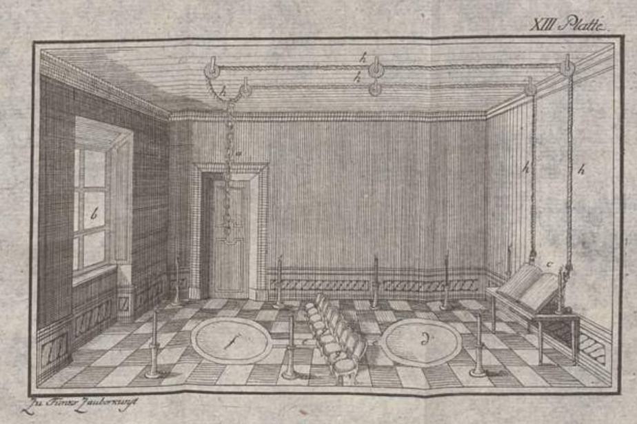 A room used for a séance as illustrated in Christlieb Benedict Funk's 1783 Natürliche Magie